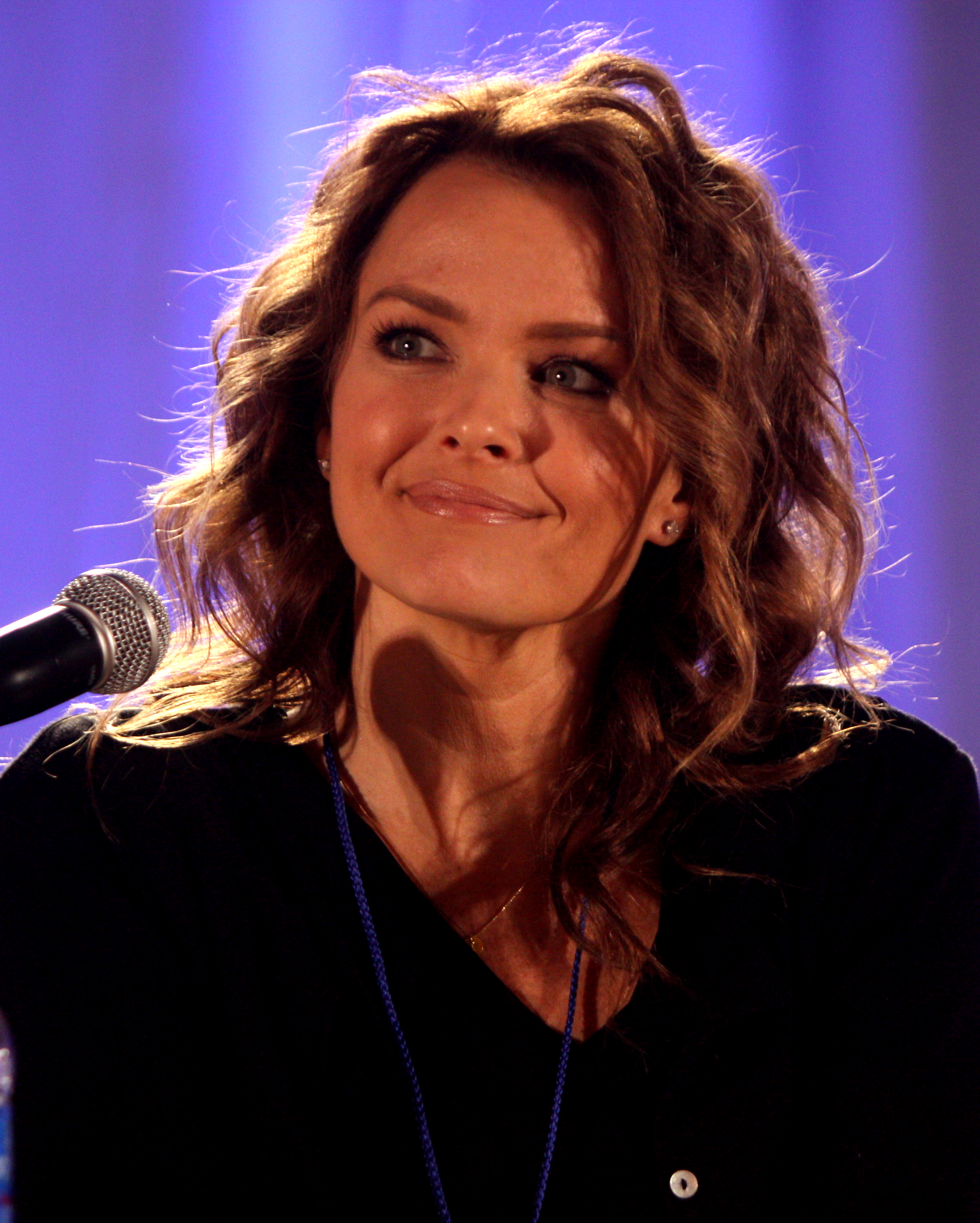 Dina Meyer at the 2012 Phoenix Comicon in Phoenix, Arizona.